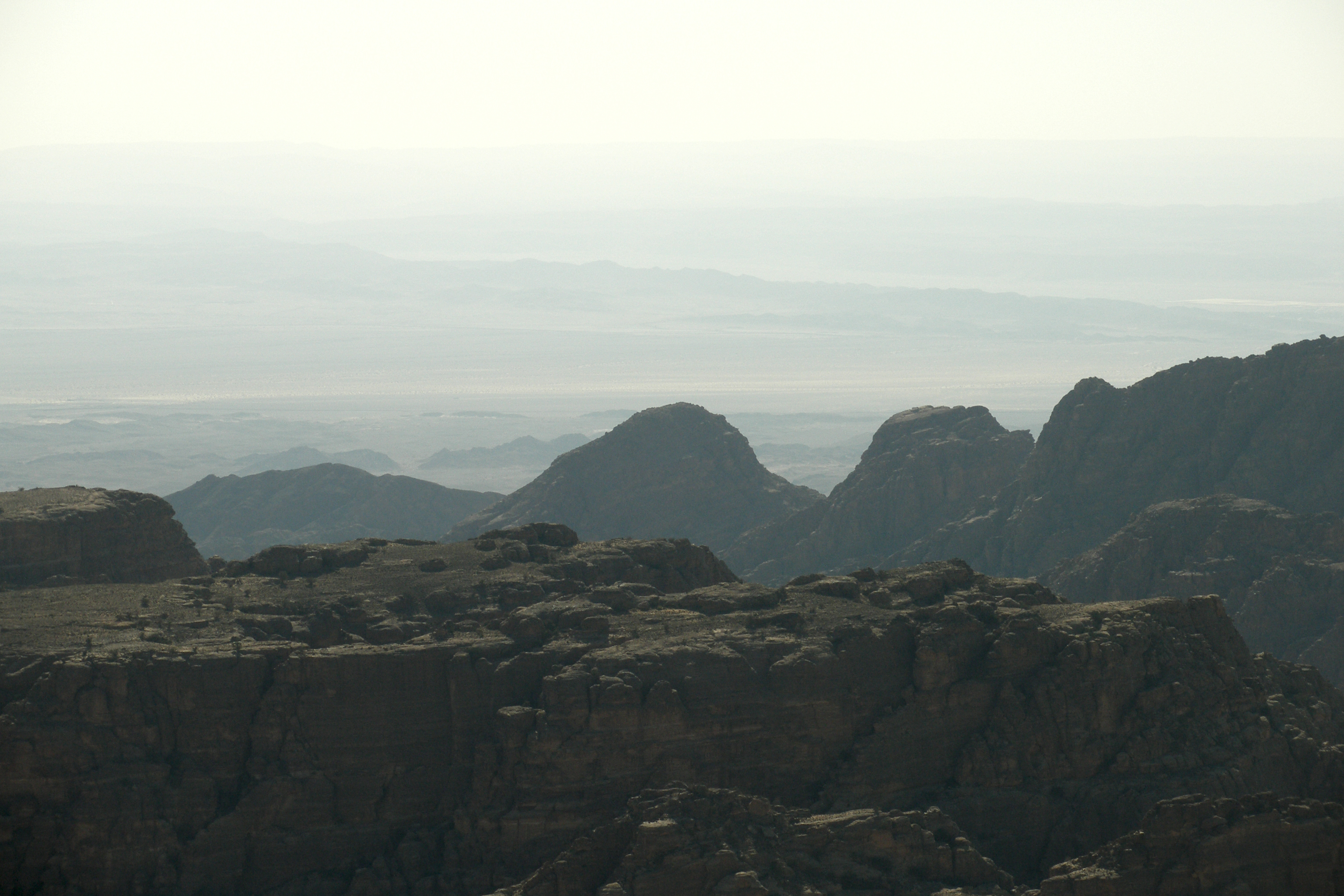 Valley of Moses (Wadi Musa), Petra, Jordan.